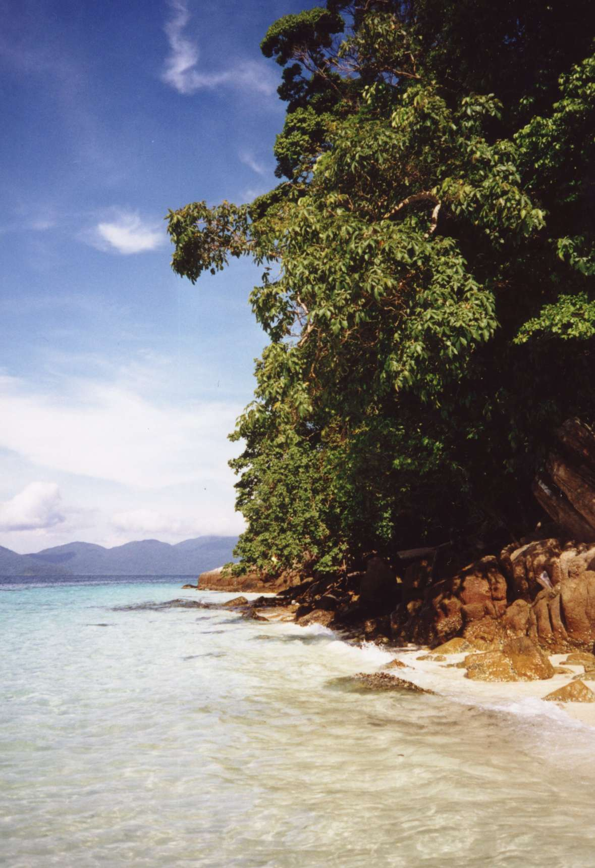 Ko Yang, Ko Tarutao National Park, Satun Province, Thailand. Photo taken by User:Ahoerstemeier on April 10 2001.